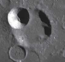 Part of the chart LAC-121